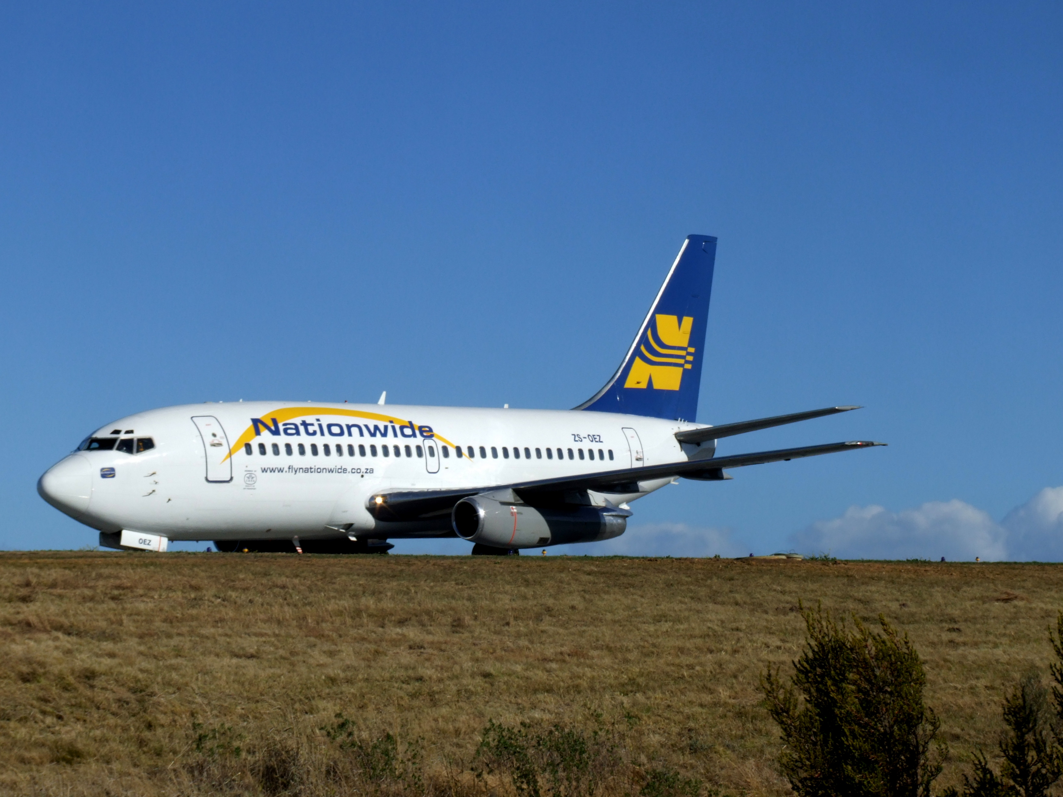 4 months later the right hand engine seperated on take off from Cape Town Intl. The incredibly skillful crew managed to return to the airport and land safely.